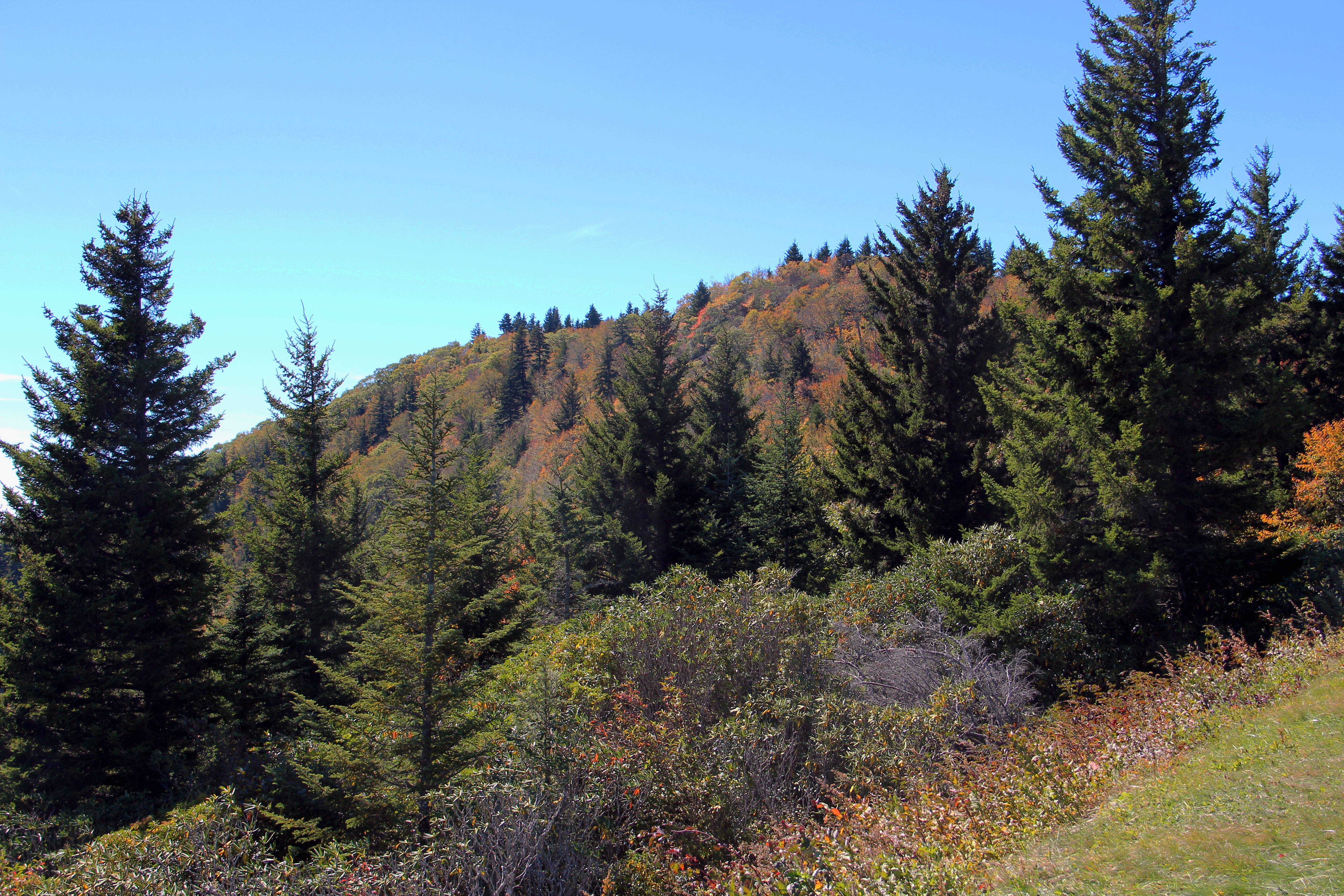 Tanasee Bald viewed from the Courthouse Overlook, October 2016